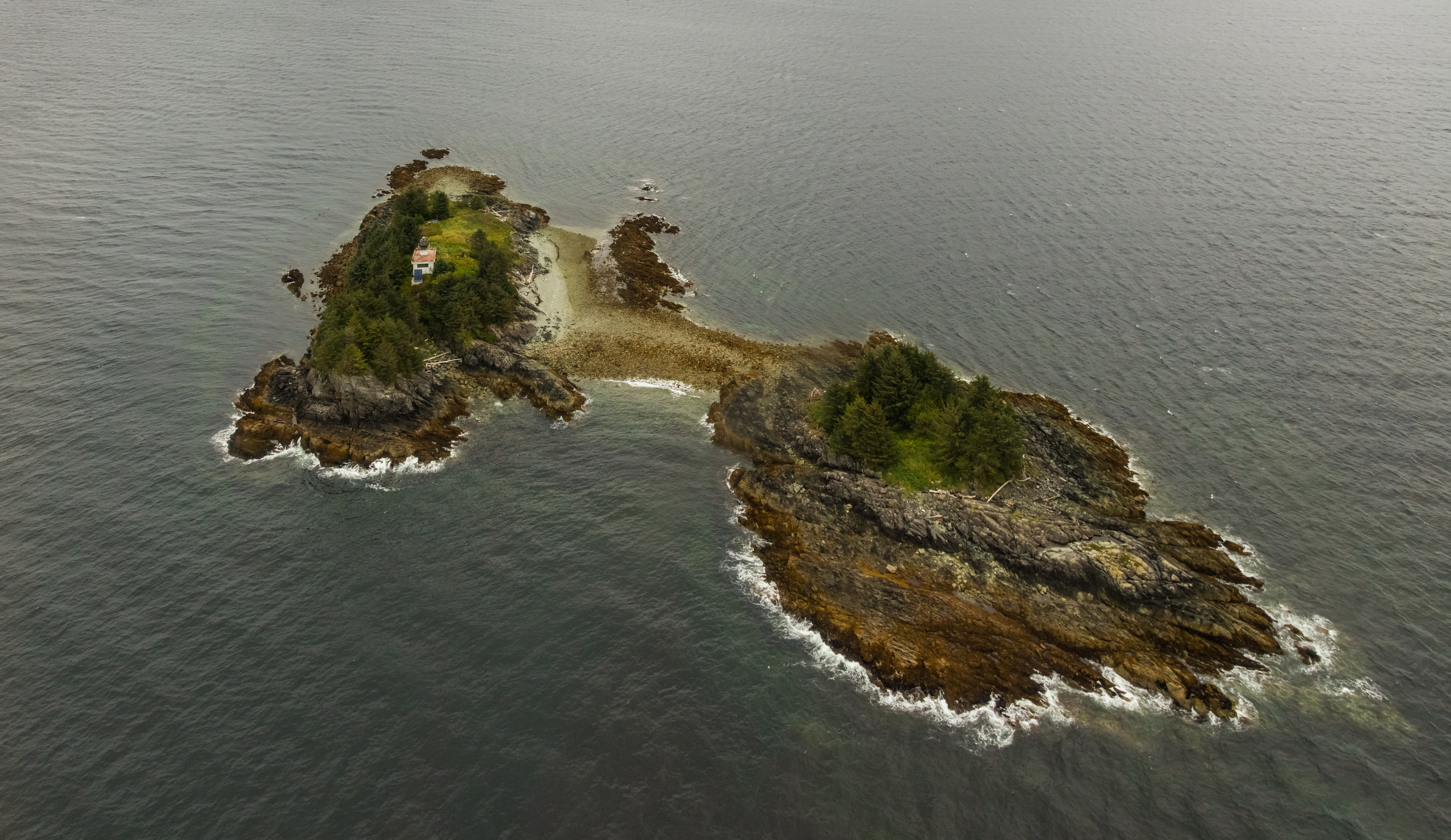 Guard Island Lighthouse, Ketchikan, Alaska, United States